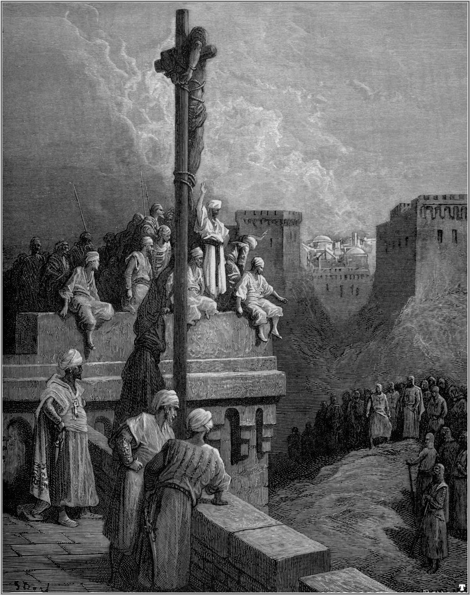 Gerard of Avesnes exposed on the walls of Asur